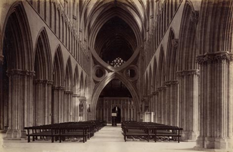 An interior shot of Wells Cathedral taken by James Valentine c. 1890. Note the unusual strainer arch.